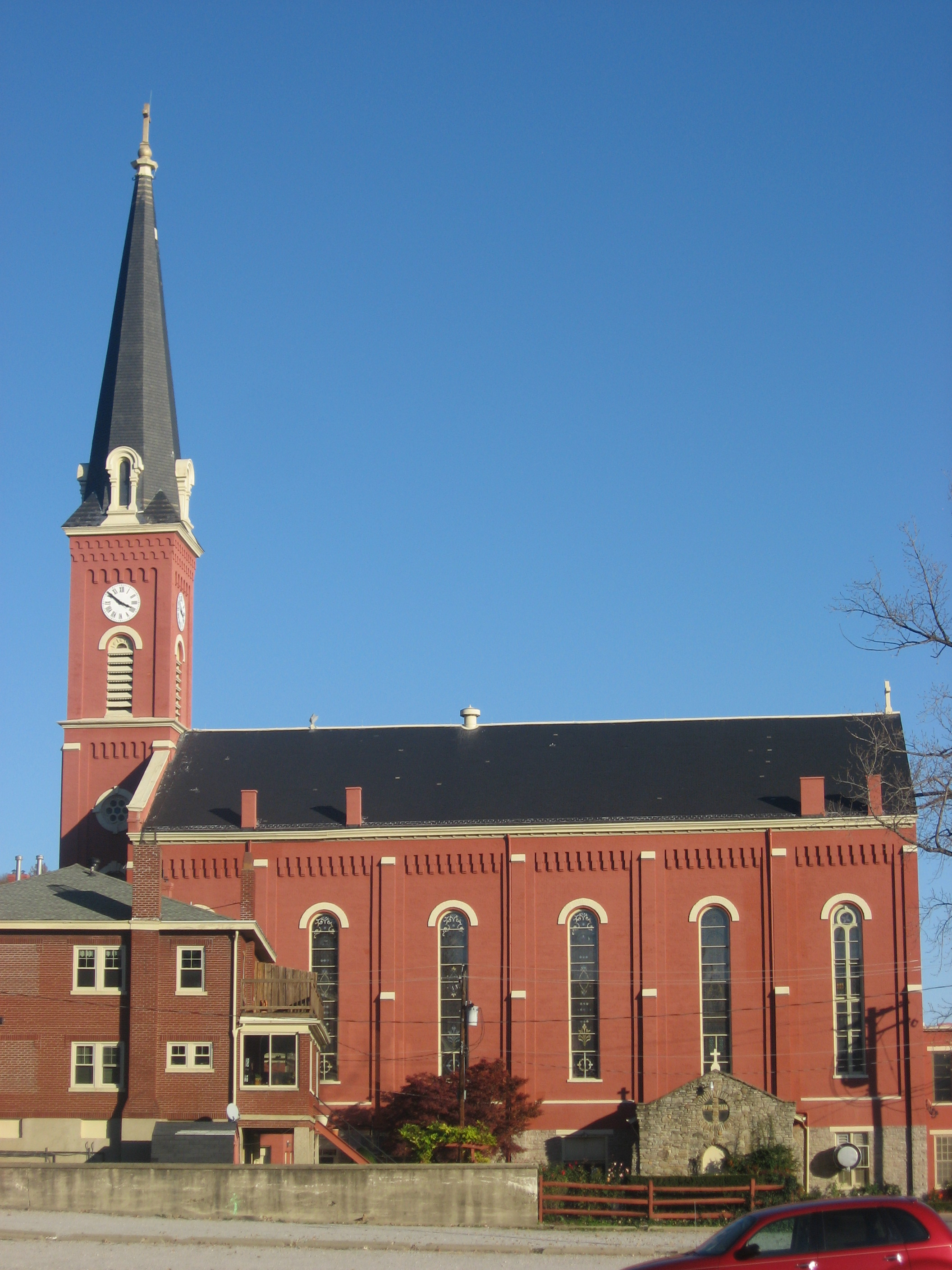 Western side of St. Rose's Catholic Church, located at 2501 Eastern Avenue (U.S. Route 52) in Cincinnati, Ohio, United States. Built in 1867, it is listed on the National Register of Historic Places.